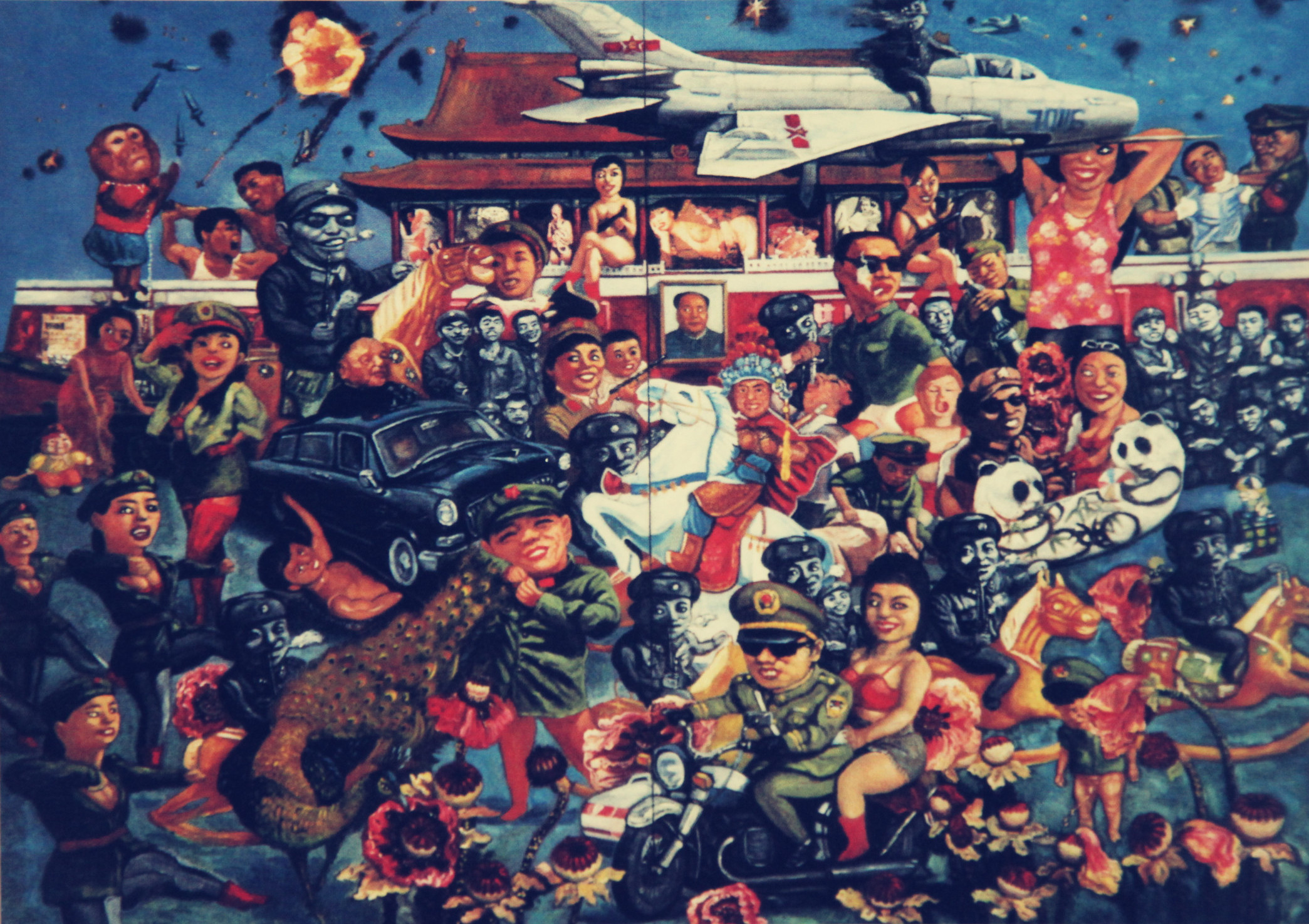 Excitement: Great Tiananmen, 1998, oil on canvas 145 x 198cm